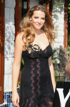 Miss Czech Republic 2007 - Katerina Sokolova in Miss World 2007, Sanya, China